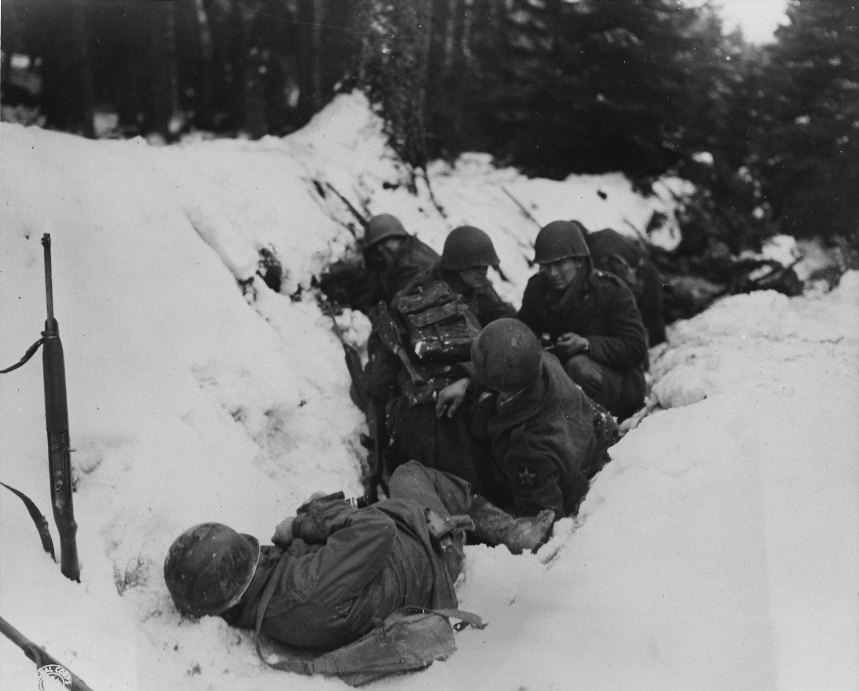 U.S. infantrymen of the 9th Infantry Regiment, 2nd Infantry Division, First U.S. Army, crouch in a snow-filled ditch, taking shelter from a German artillery barrage during the Battle of Heartbreak Crossroads in the Krinkelter woods on 14 December 1944.